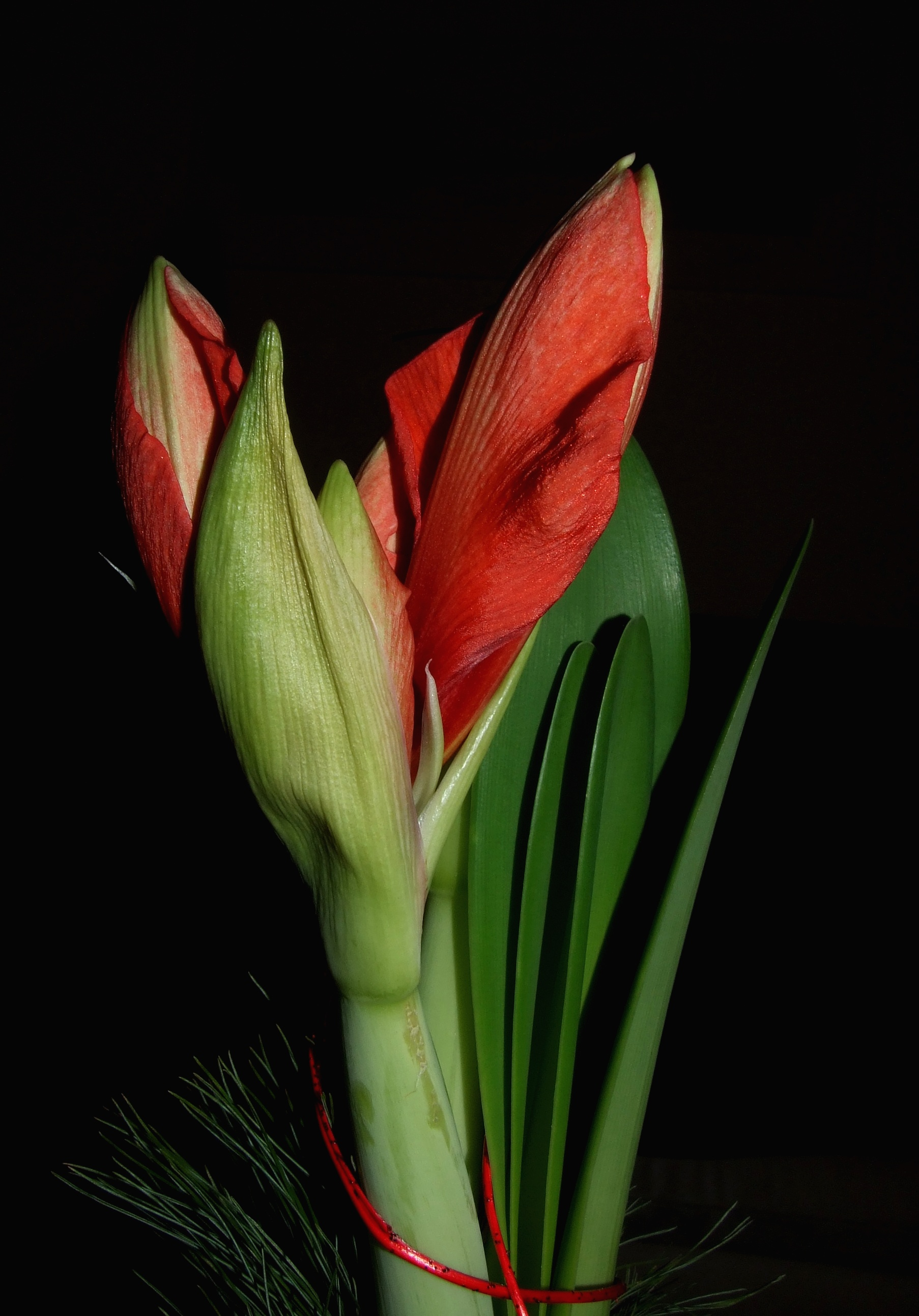 Amaryllis hippeastrum